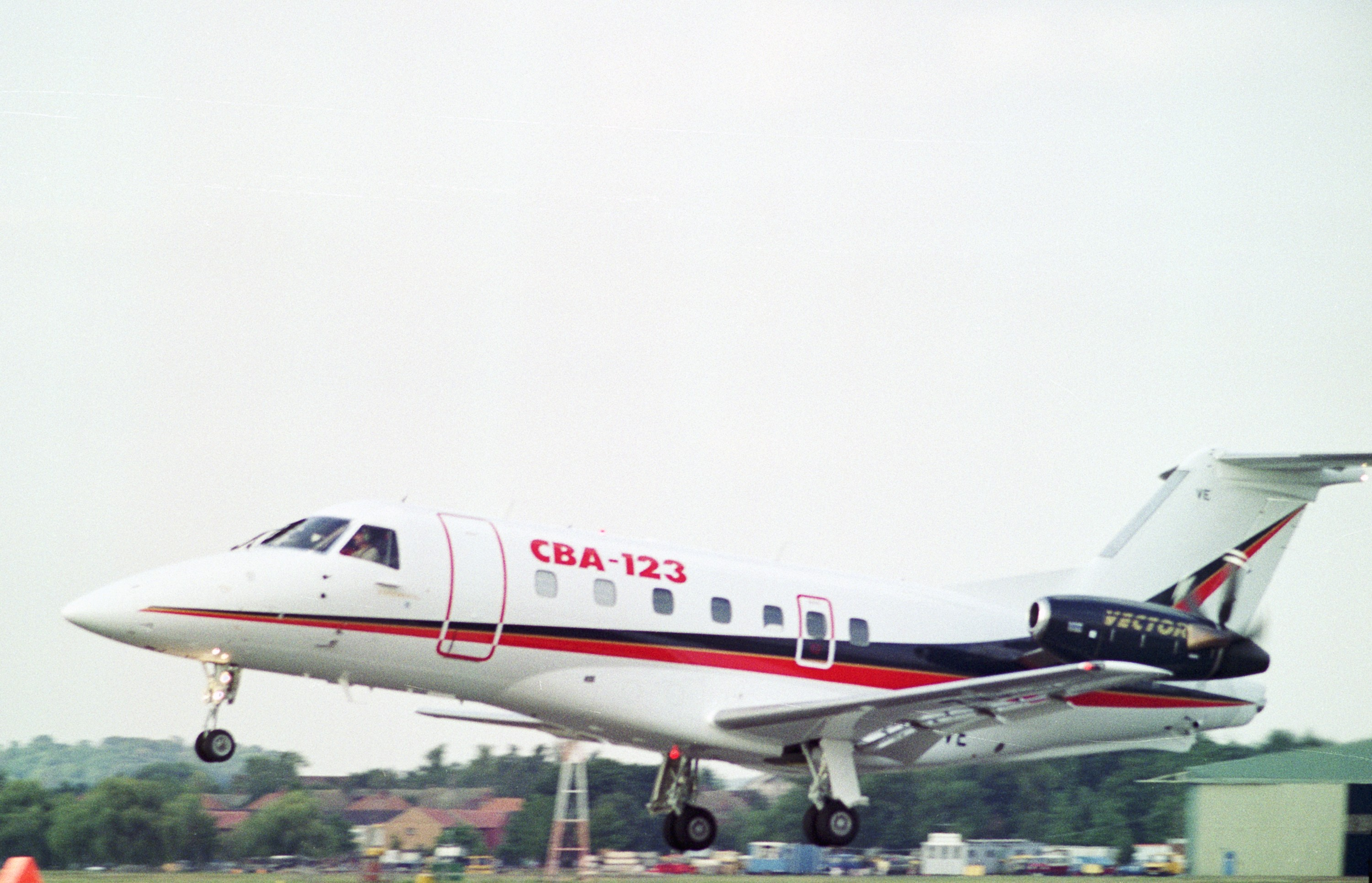 Farnborough (FAB / EGLF) UK - England, September 1990.